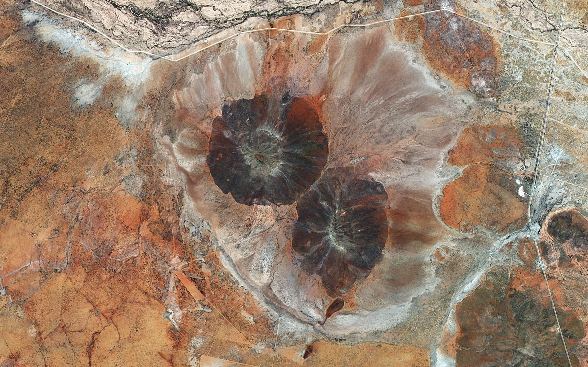 Omatako Mountains, Namibia, as viewed by Hodoyoshi-1 satellite.